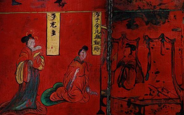 Li Ch'ung (李充) and his wife before his mother, lacquer painting over wood, Northern Wei.